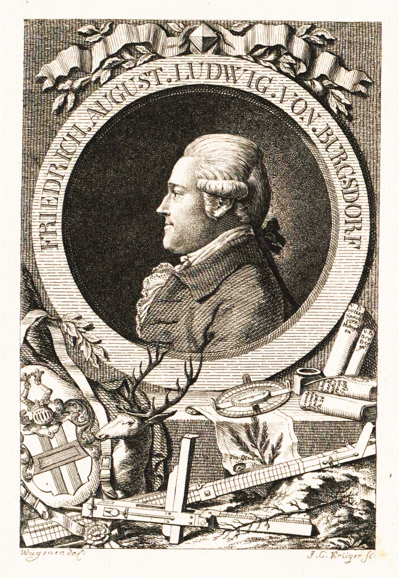 Portrait of Friedrich August Ludwig von Burgsdorff